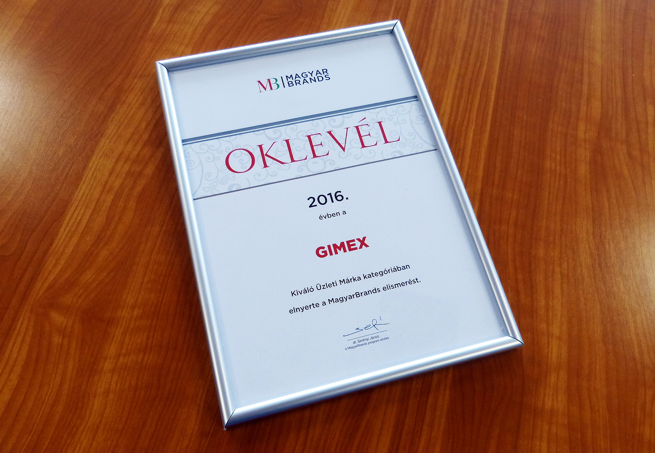 Brands 2016